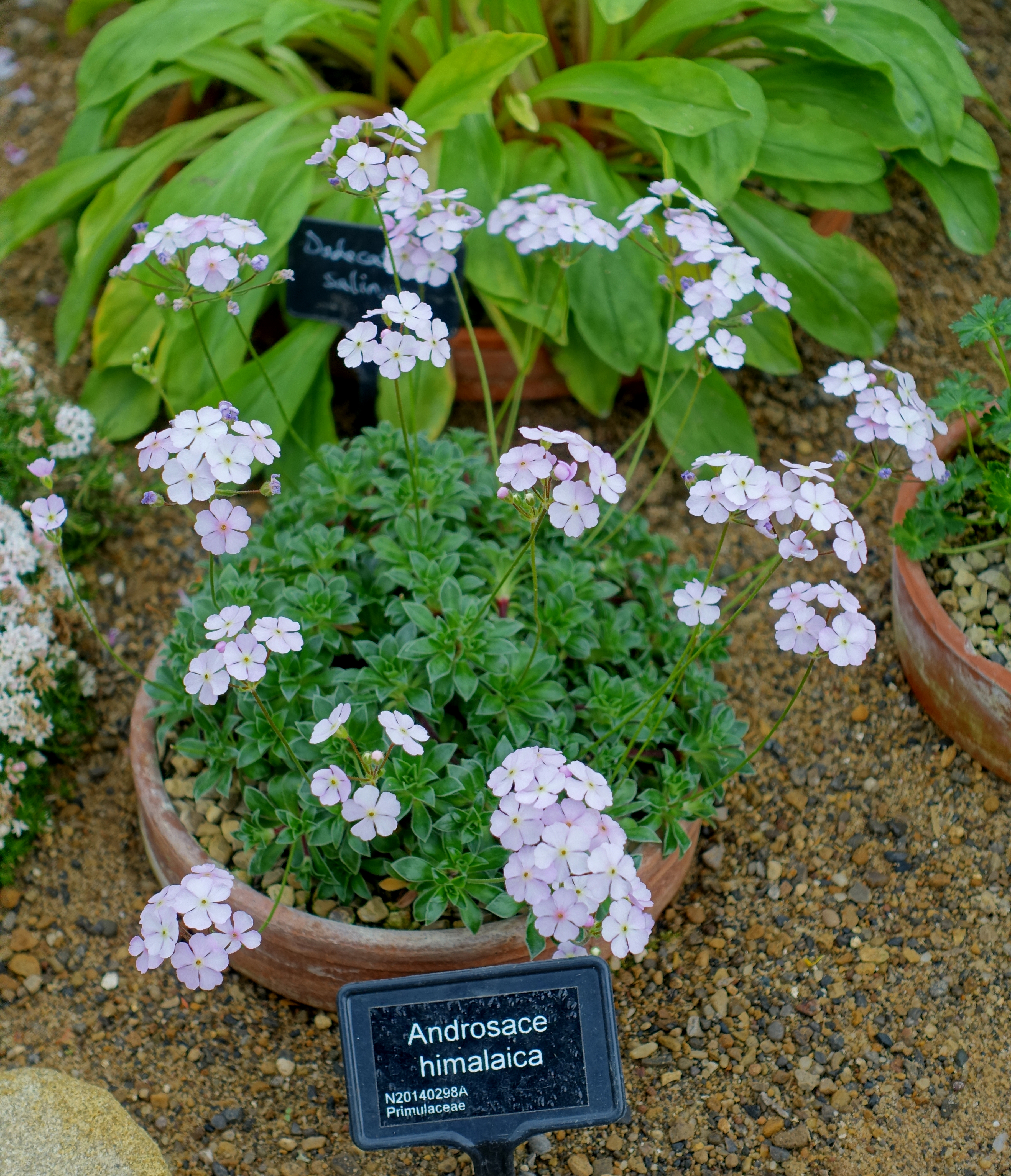 Horticultural specimen in RHS Garden Harlow Carr - North Yorkshire, England.